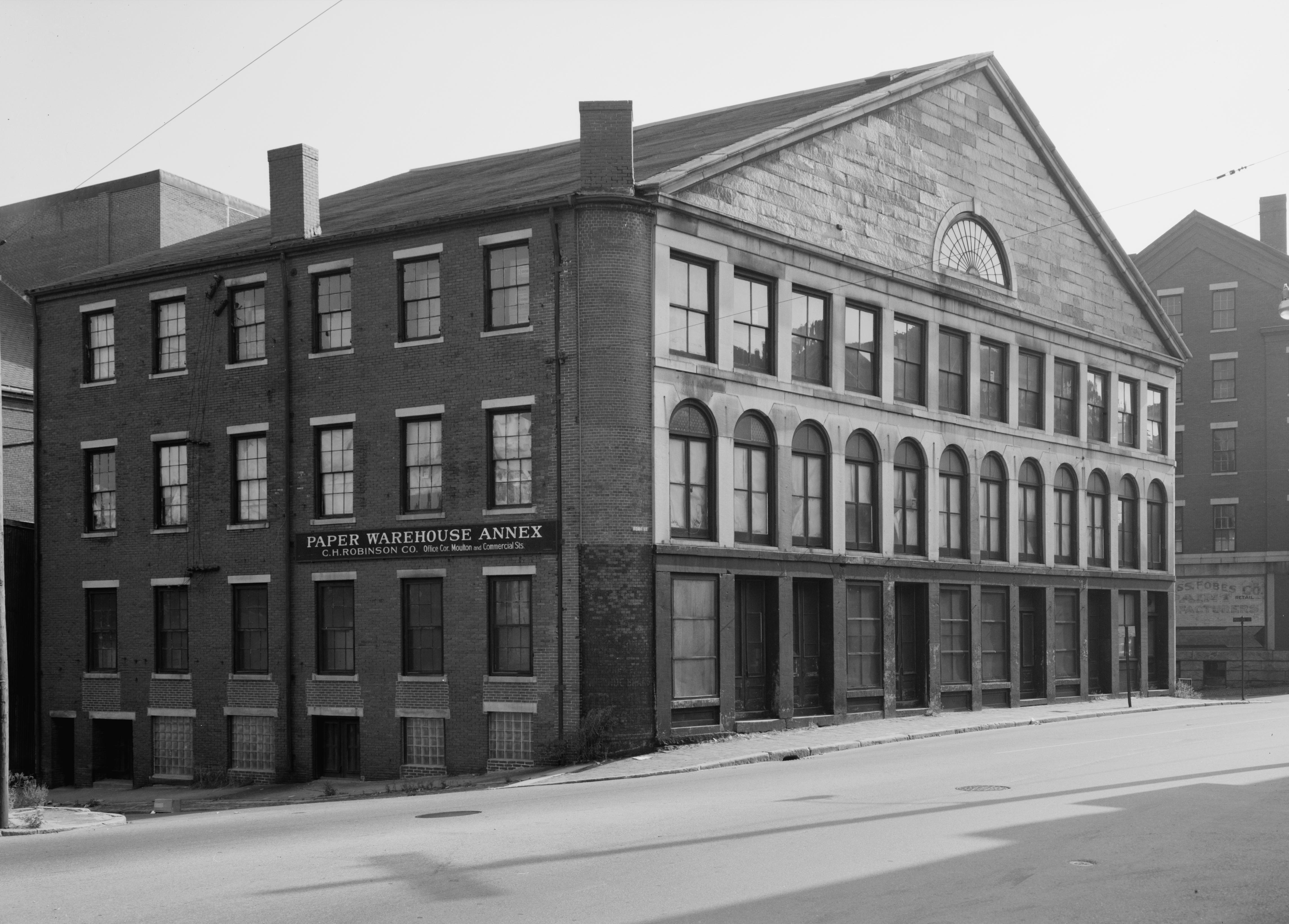 Front of the Mariner's Church, located at 368-374 Fore Street in Portland, Maine, United States. Built in 1828, it is listed on the National Register of Historic Places.